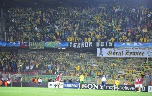 Fanatici in the Prague